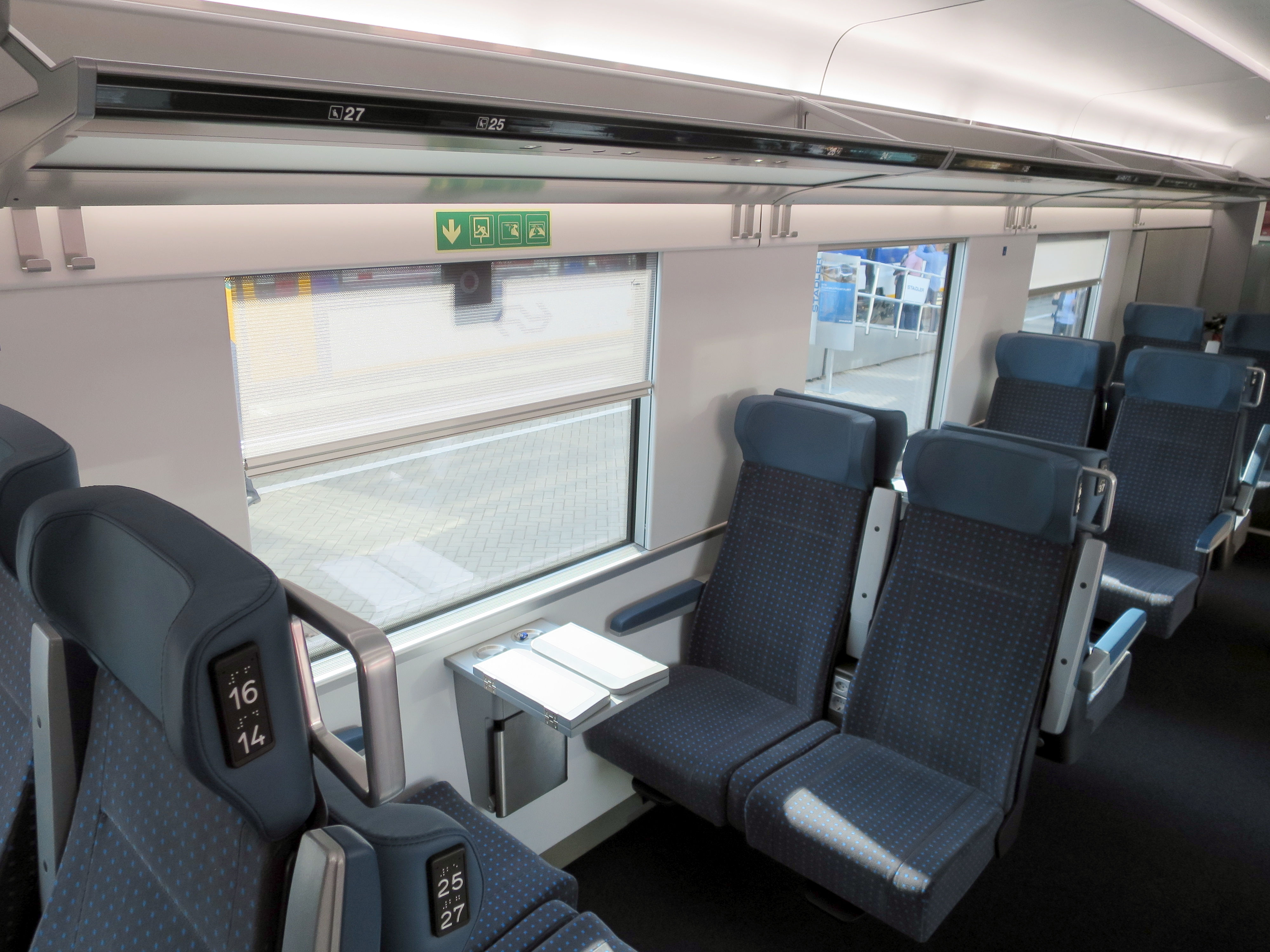 InnoTrans 2016 The making of this document was supported by Wikimedia Polska Association, within Wikigrant no. WG 2016-35.